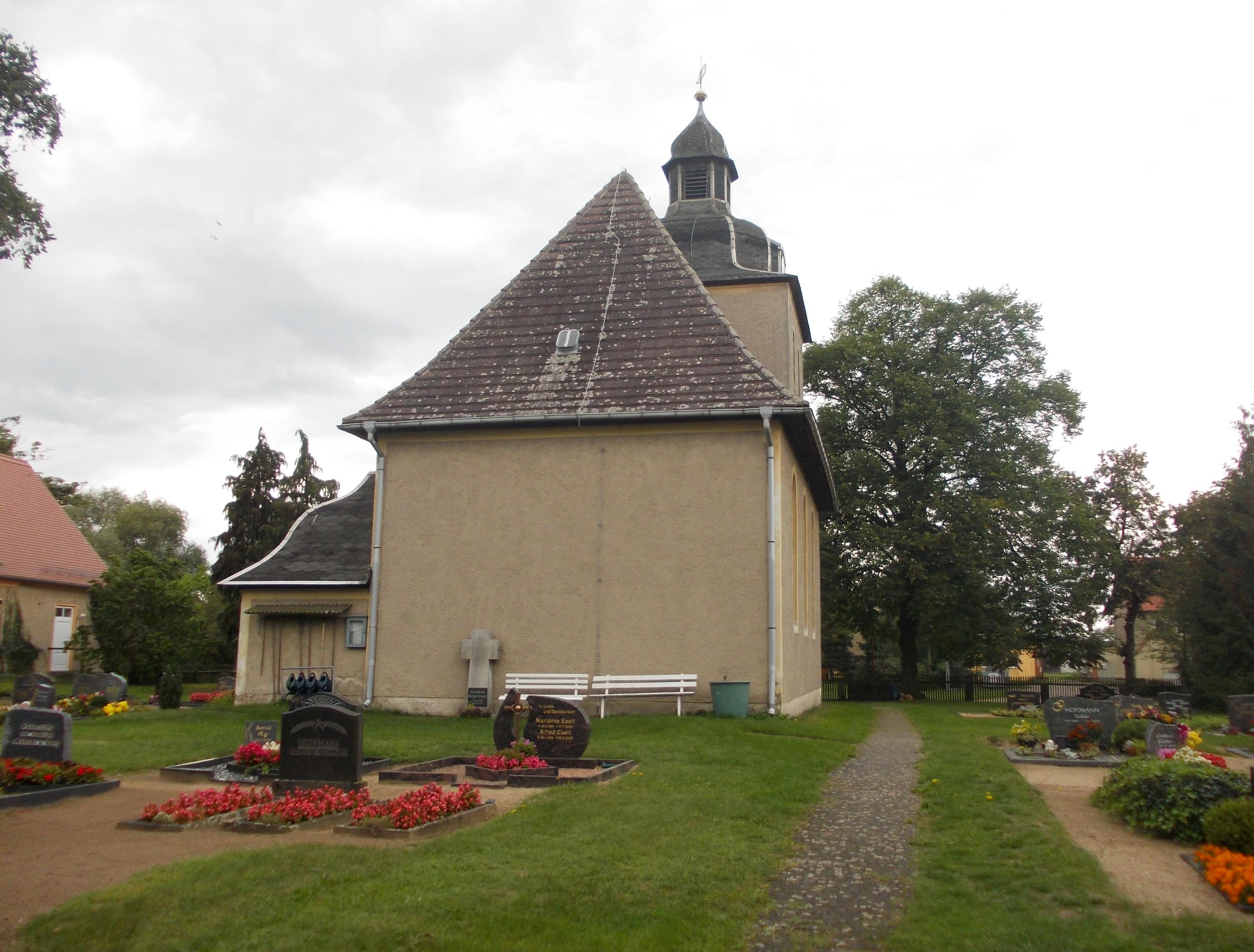 Rehfeld church (Falkenberg/Elster, Elbe-Elster district, Brandenburg)